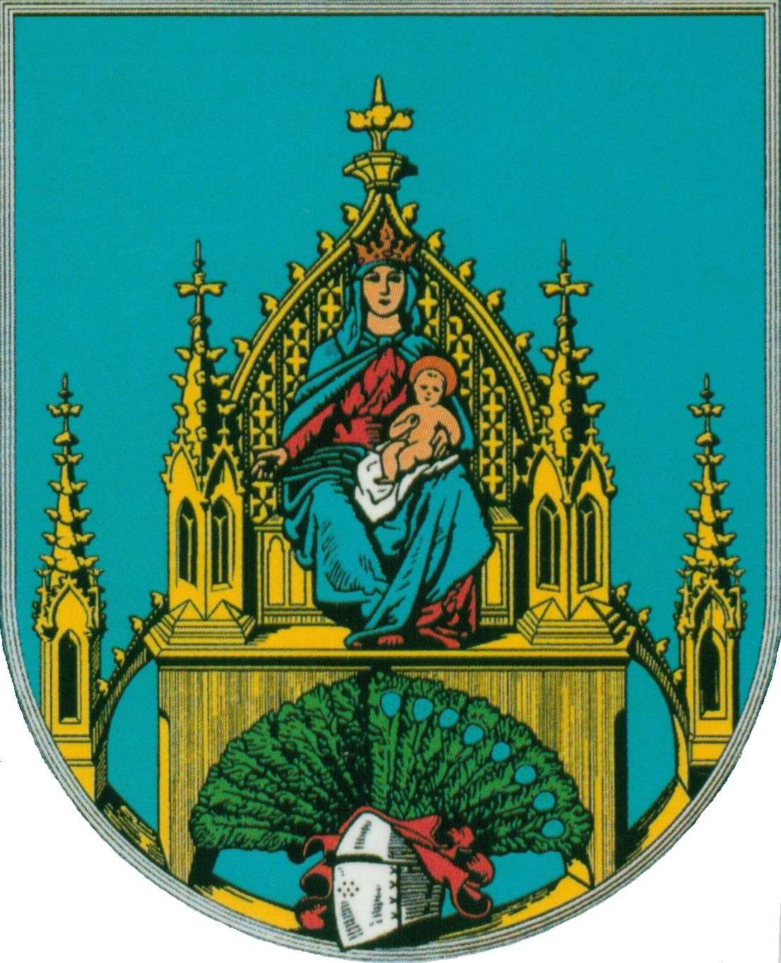 Schmolln coat of arms emblem